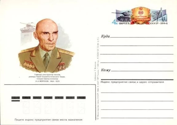 A Soviet envelope with portrait of Morozov A.A.